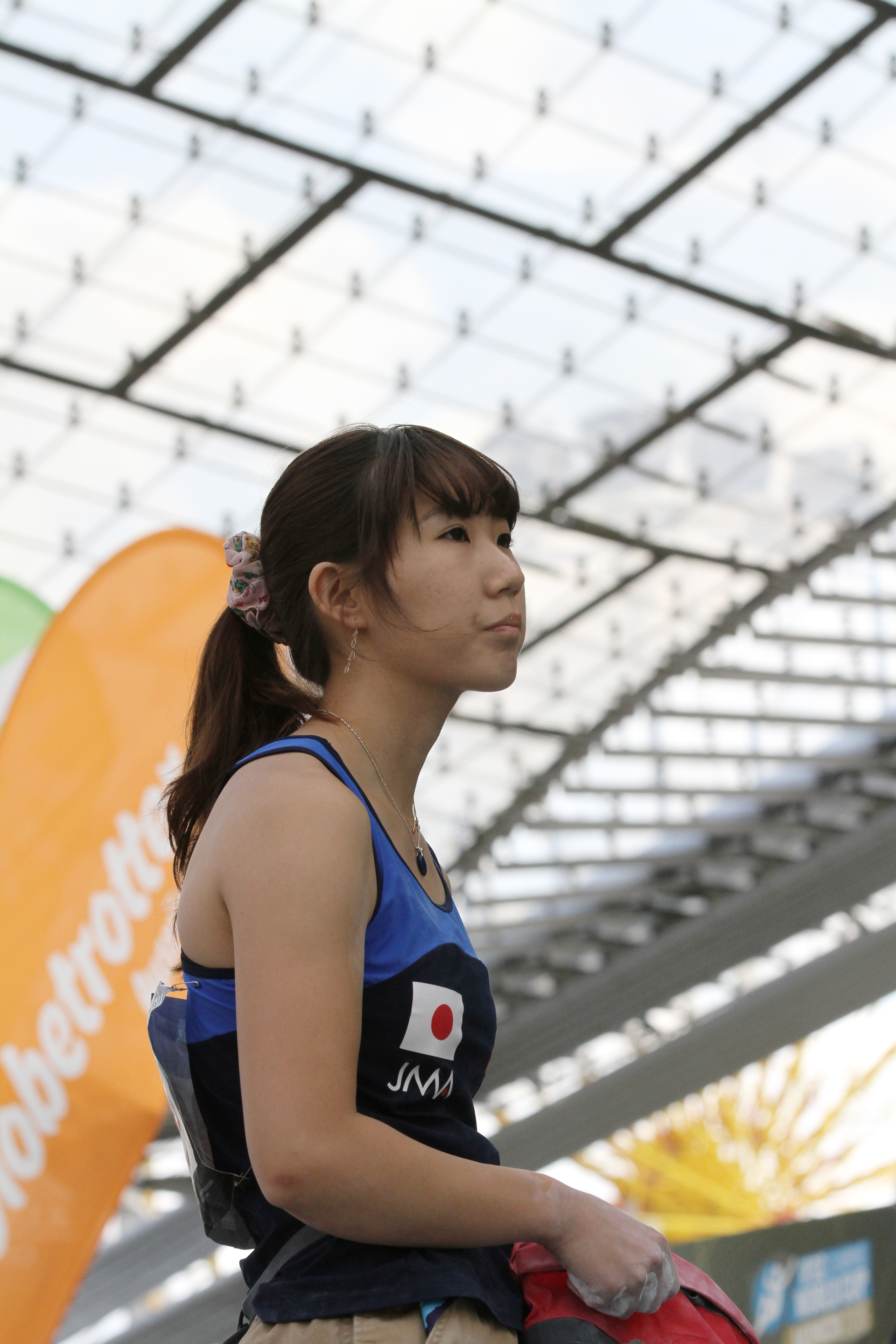 IFSC Boulder Worldcup, Munich 2015. Aya Onoe (JAP)